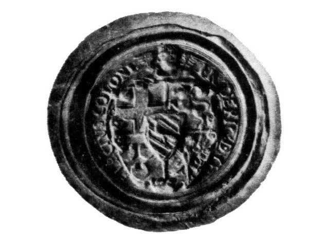 Seal of Frederic IV von Wied, archbishop of Cologne (1562-1567)